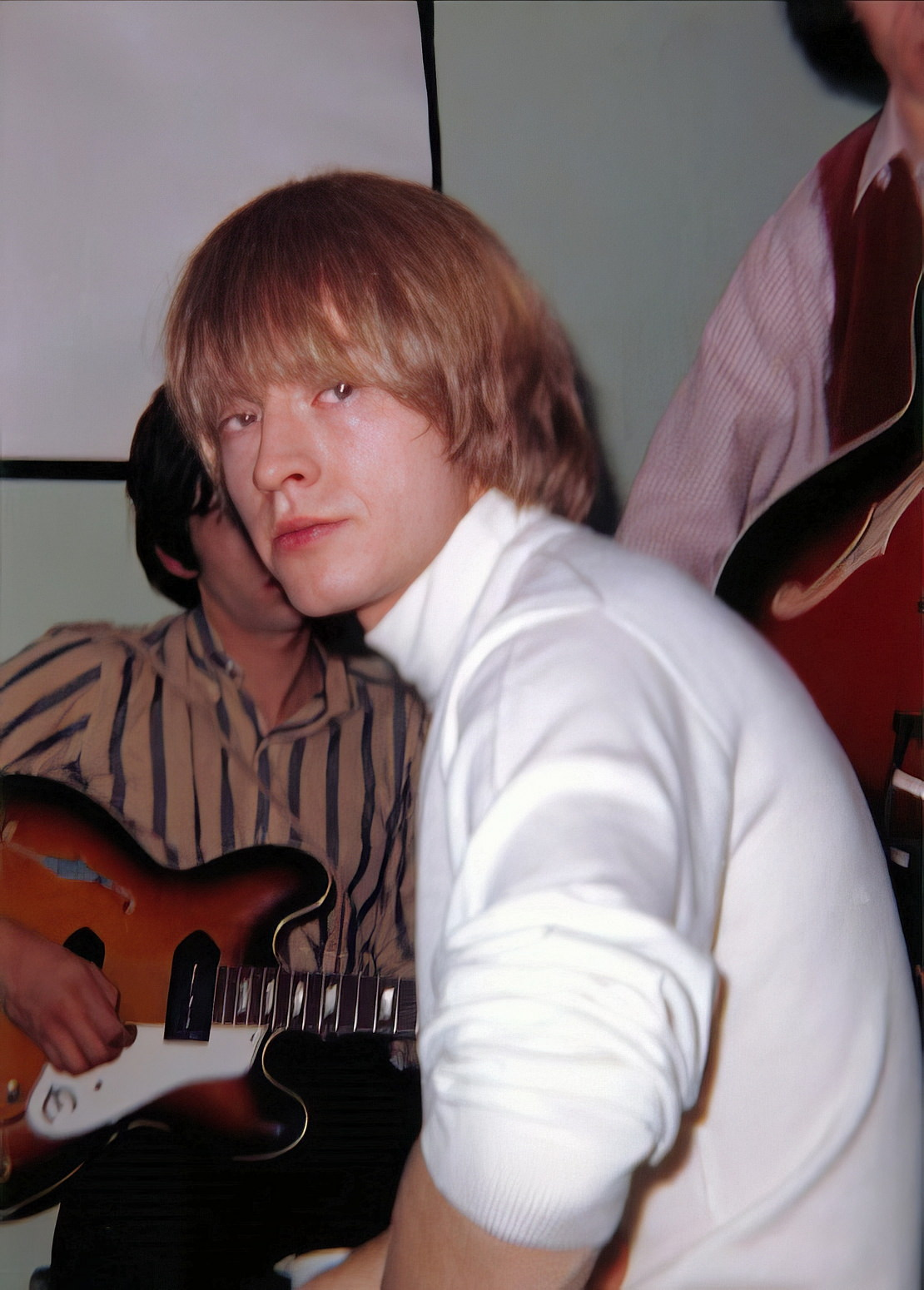 Brian Jones in the locker room of the gym of Georgia Southern College. Taken prior to the The Rolling Stones performance there on May 4, 1965. Photo by Kevin Delaney with a 110 Kodak Instamatic.